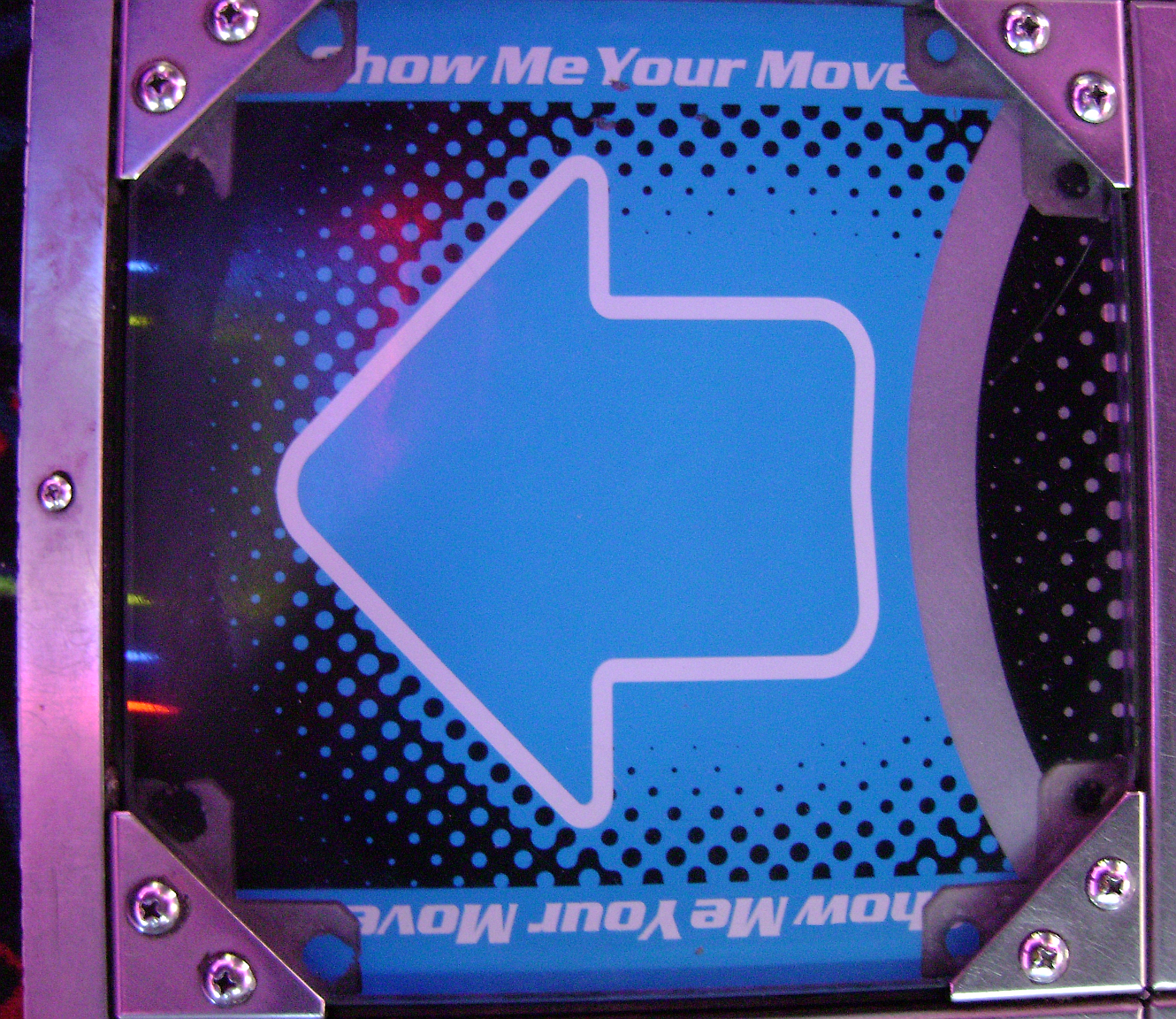 The left-most arrow panel on the dance platform of a Dance Dance Revolution Extreme arcade machine.